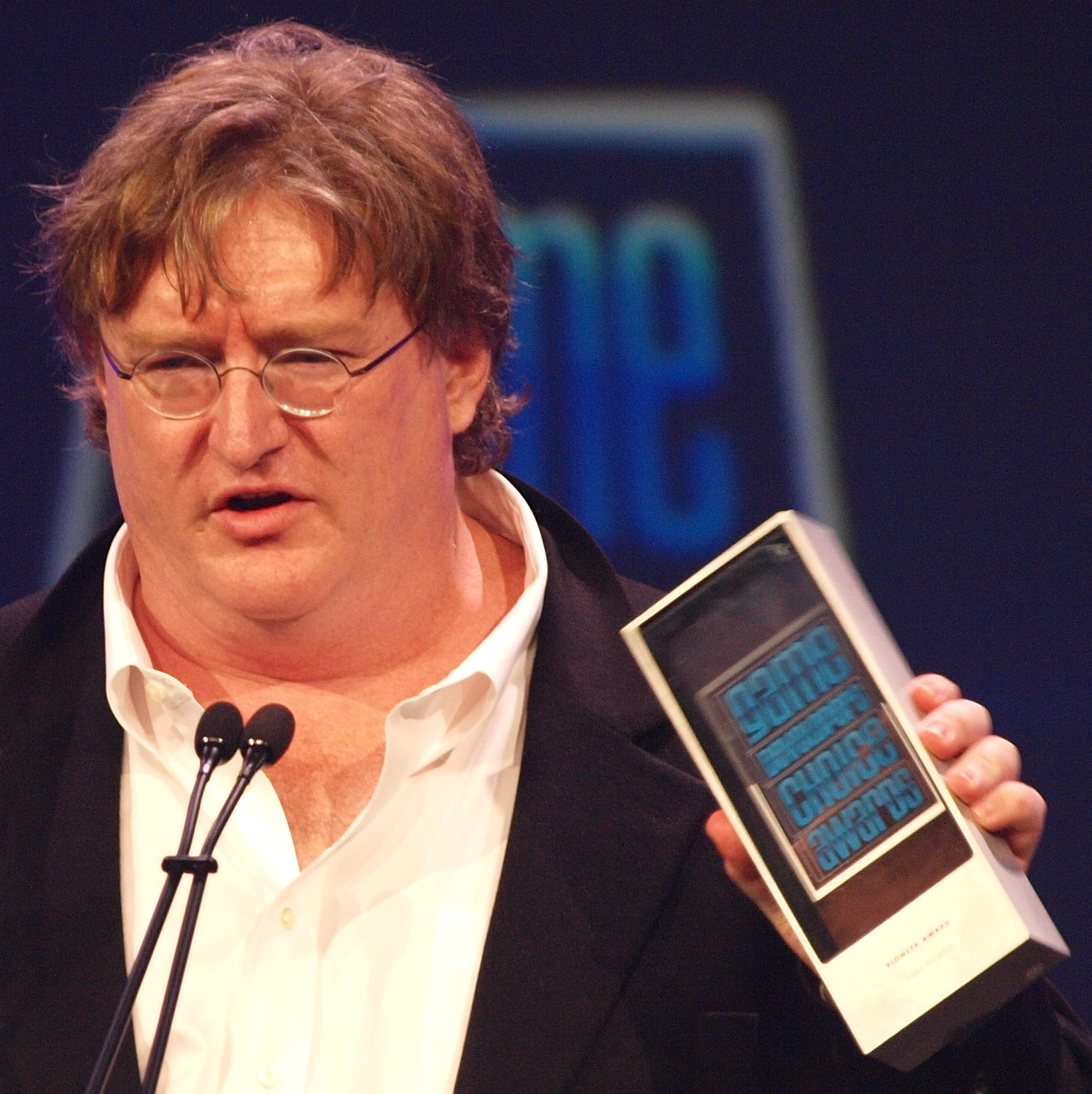 Gabe Newell, Game Developers Conference.